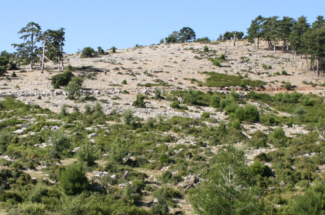 Phrygana with surviving pines.